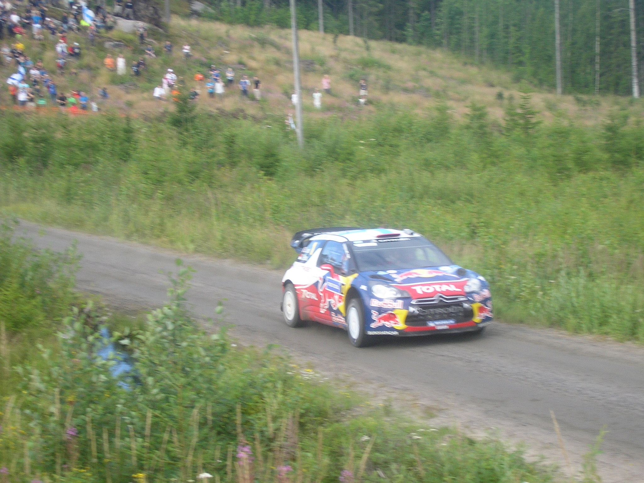 Loeb at 1st Surkee stage at 2011 Rally Finland